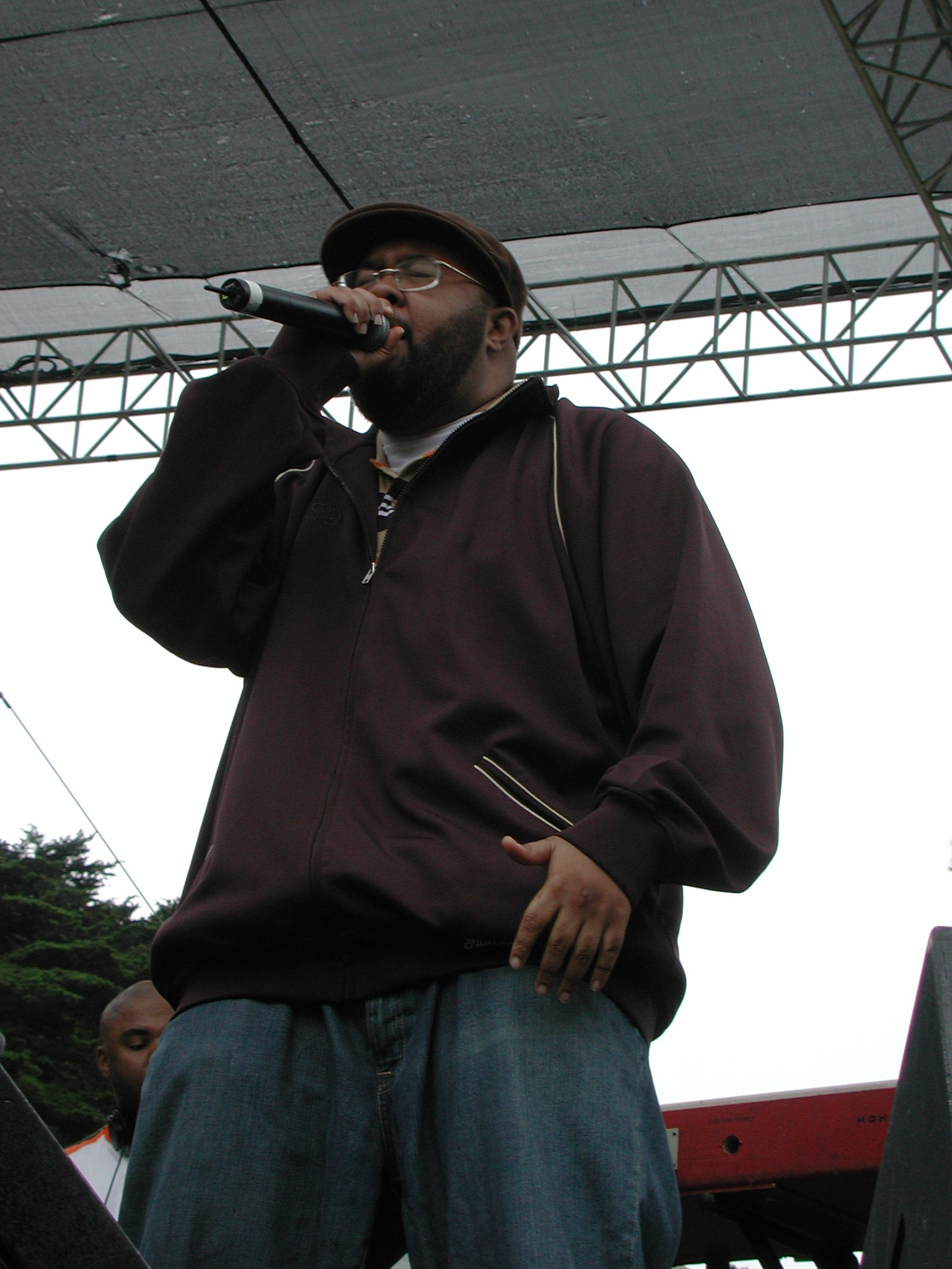 Gift of Gab of Blackalicious at San Francisco's Power to the Peaceful Festival in 2006